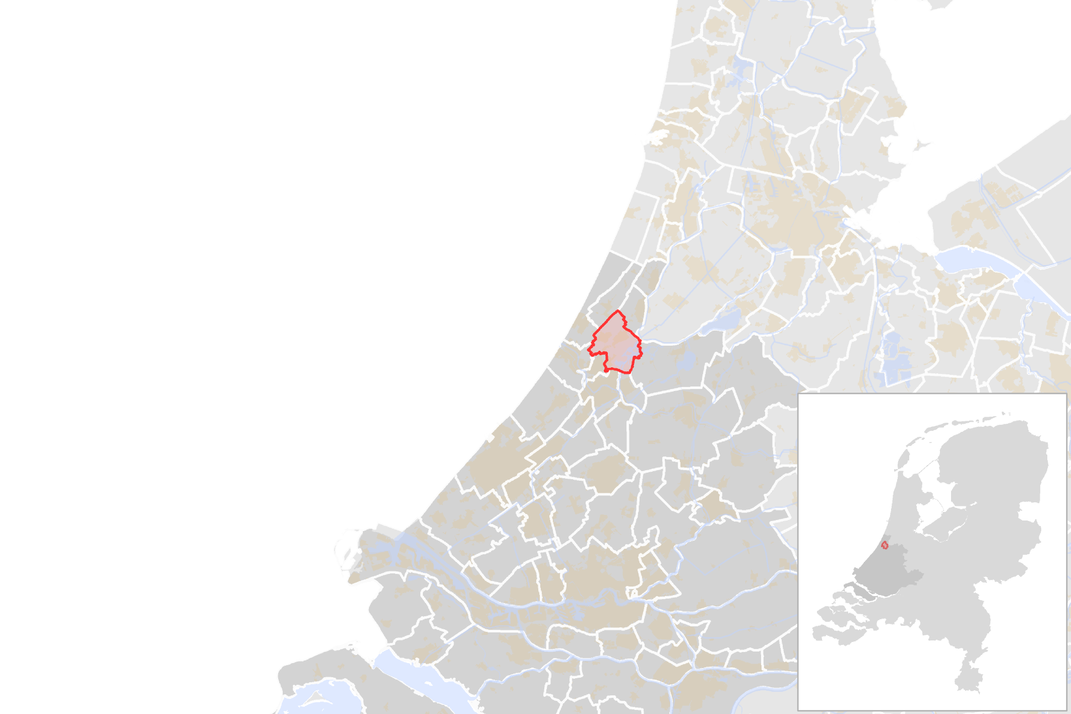 Locator map showing municipality boundary of one of the 390 Dutch municipalities (as of 2016)